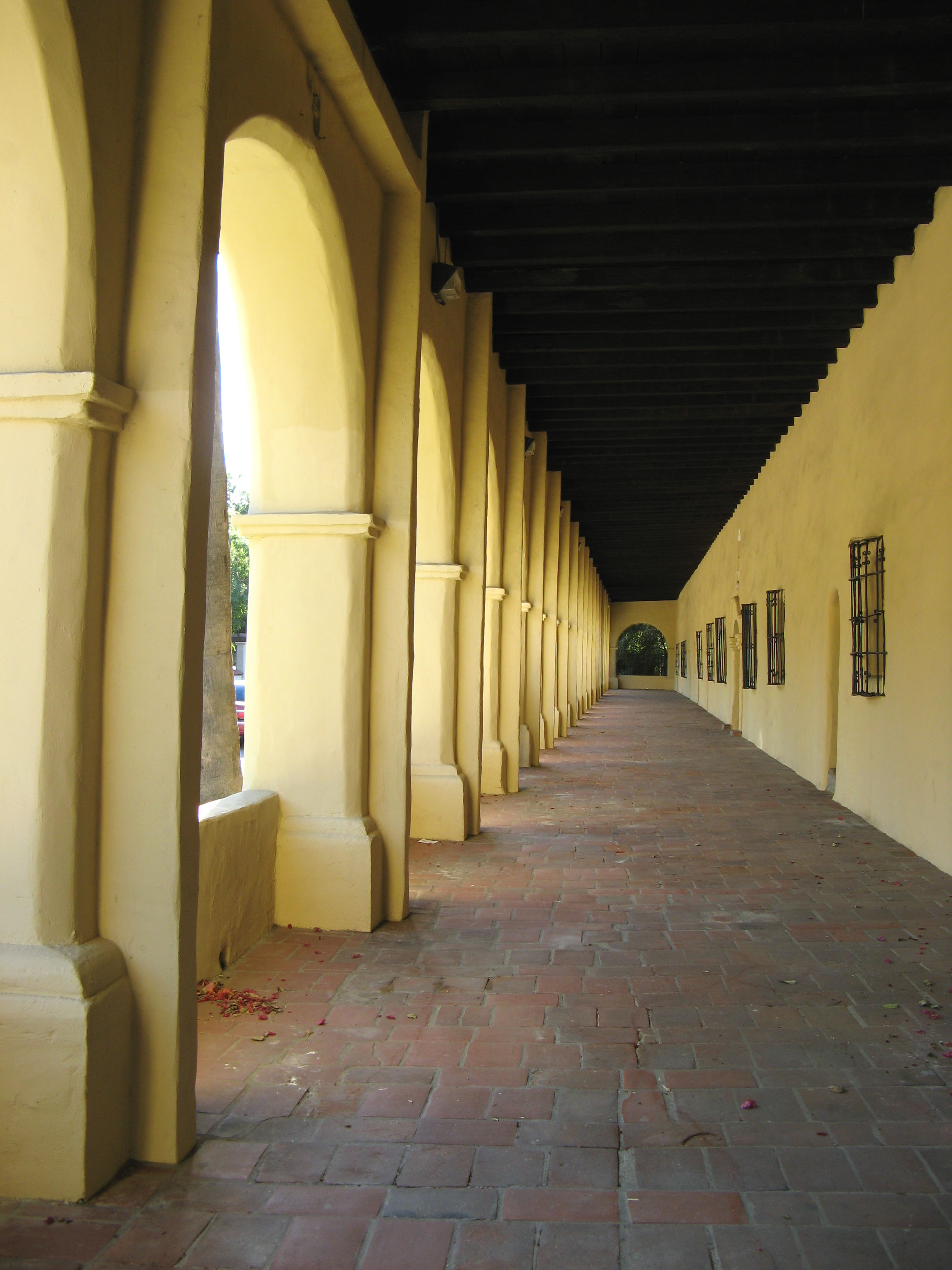 Exterior Corridor at Mission San Fernando Rey de España. Photographed and uploaded by user:Geographer